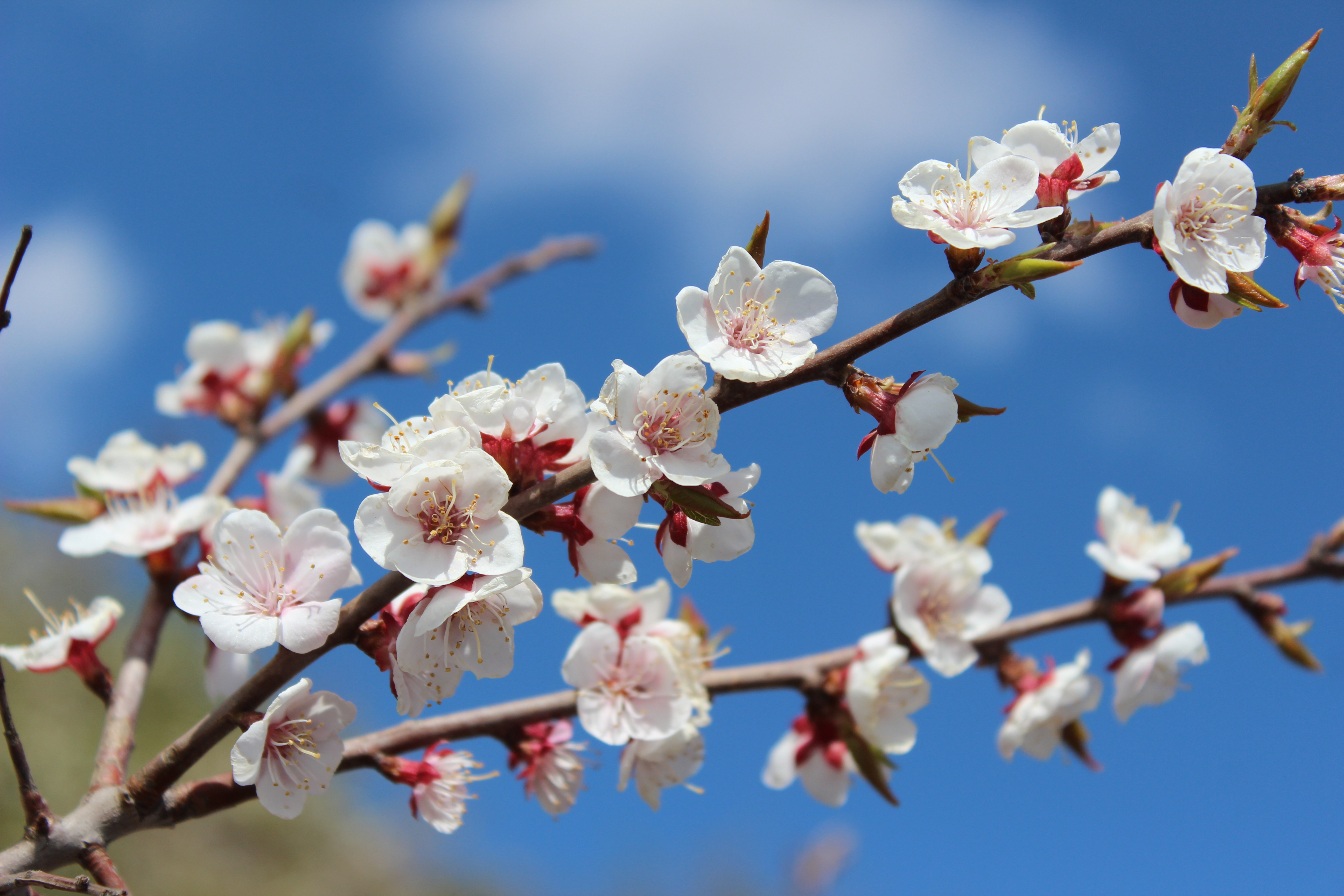 Siberian apricot on Mount Haraty